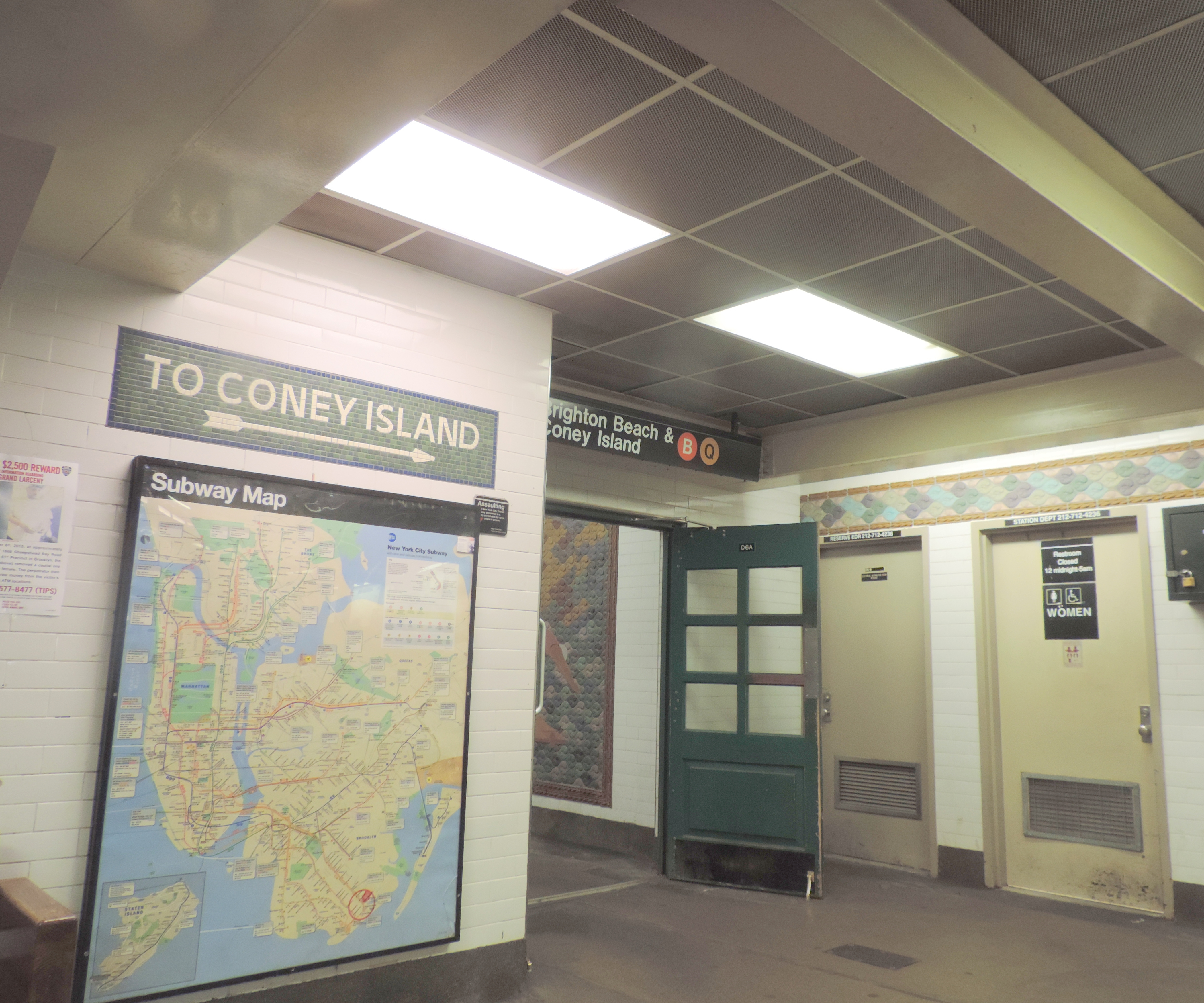 Looking southwest at interior stair to southbound platform